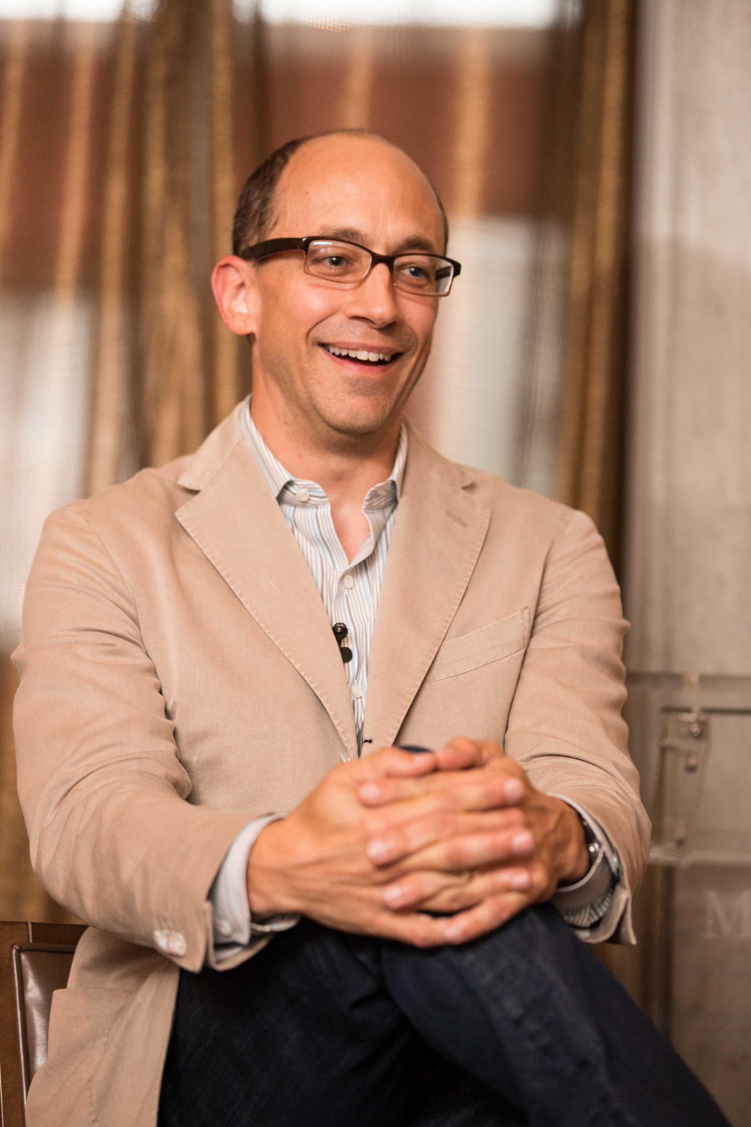 Photo credit: Drew Altizer photography